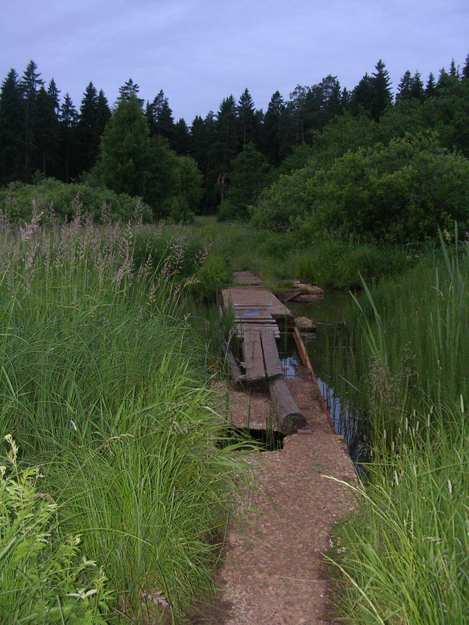 "Vyrvenka" place on Chernogoovka river near Noginsk city.